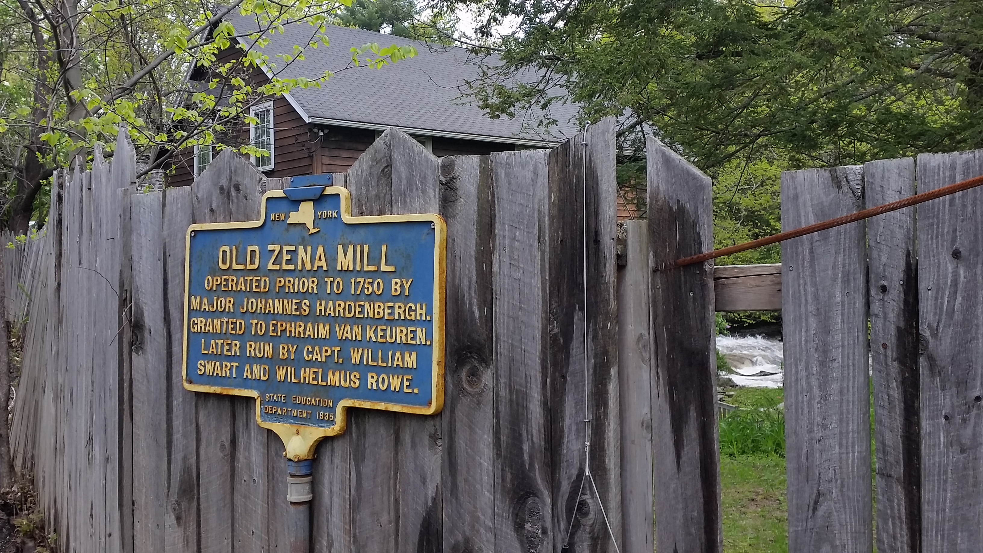 NY State historical marker for the old Zena Mill, with, if you look between the missing fence boards, a shot of the waterfall that powered the mill behind it